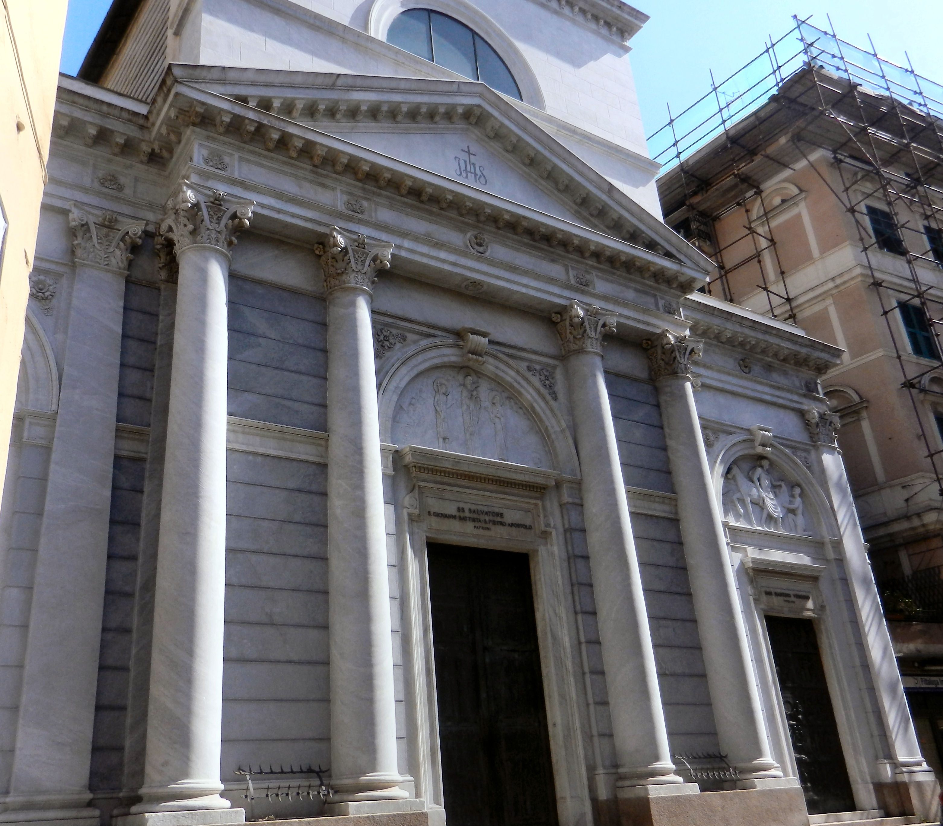 Genoa, Italy, quarter of Sampierdarena, church of di Santa Maria della Cella (facade detail)